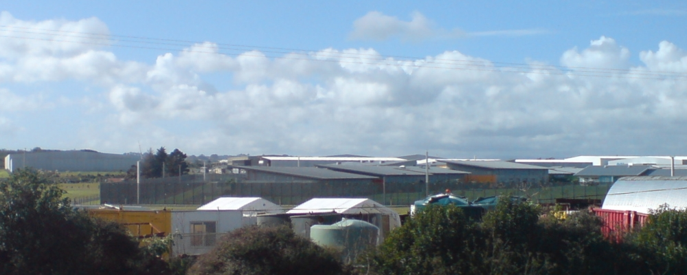 Auckland Region Women's Corrections Facility in Manukau City, New Zealand.